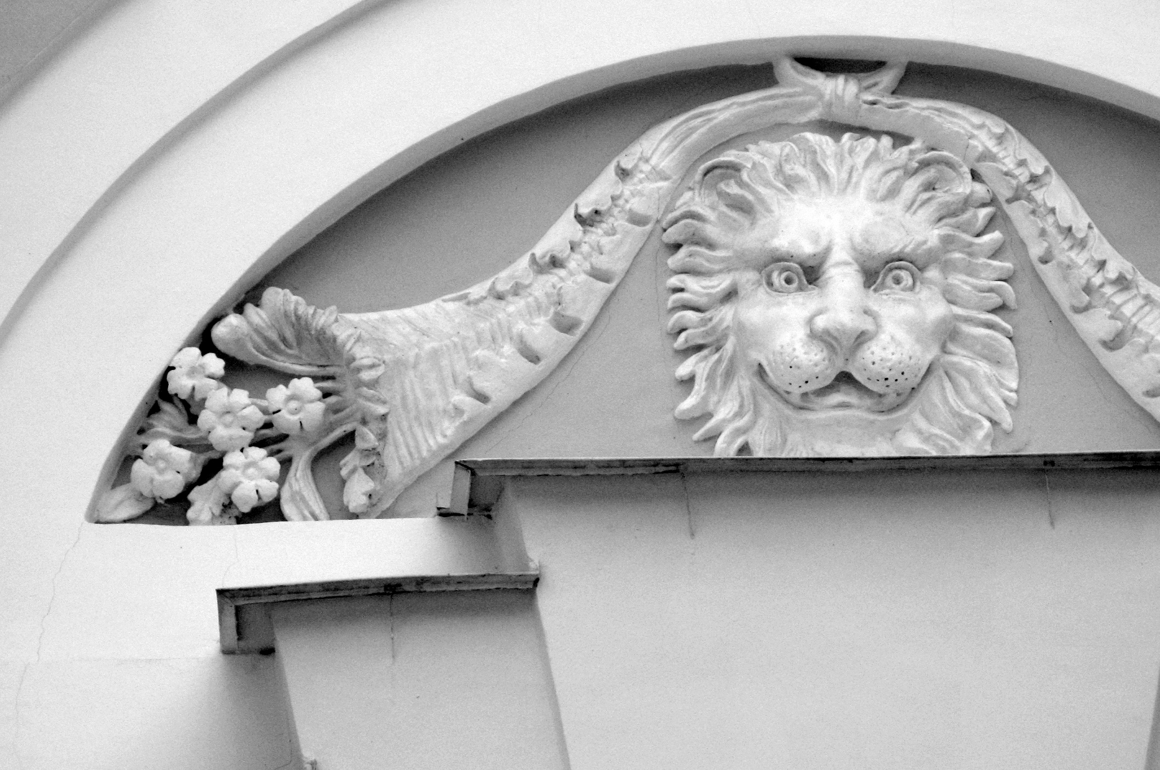 Lion and flowers, relief decorating Pavlovsk Palace.